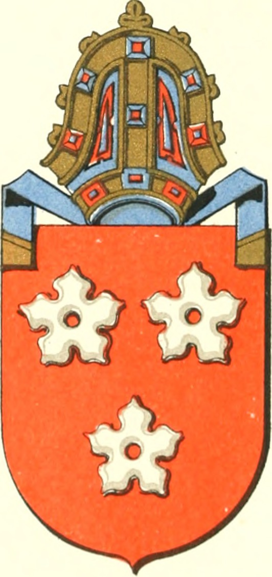 Coat of arms of David Hamilton, Bishop of Argyll Identifier': lacunarbasilicae00geddrich Title: Lacunar basilicae Sancti Macarii, aberdonensis: the heraldic ceiling of the cathedral church of St. Machar, old Aberdeen Year: 1888 (1880s) Authors: Geddes, W. D., Sir (William Duguid), 1828-1900 Duguid, Peter Subjects: Old Machar Church (Aberdeen, Scotland) Heraldry -- Scotland Heraldry, Ornamental Publisher: Aberdeen : Printed for the New Spalding Club